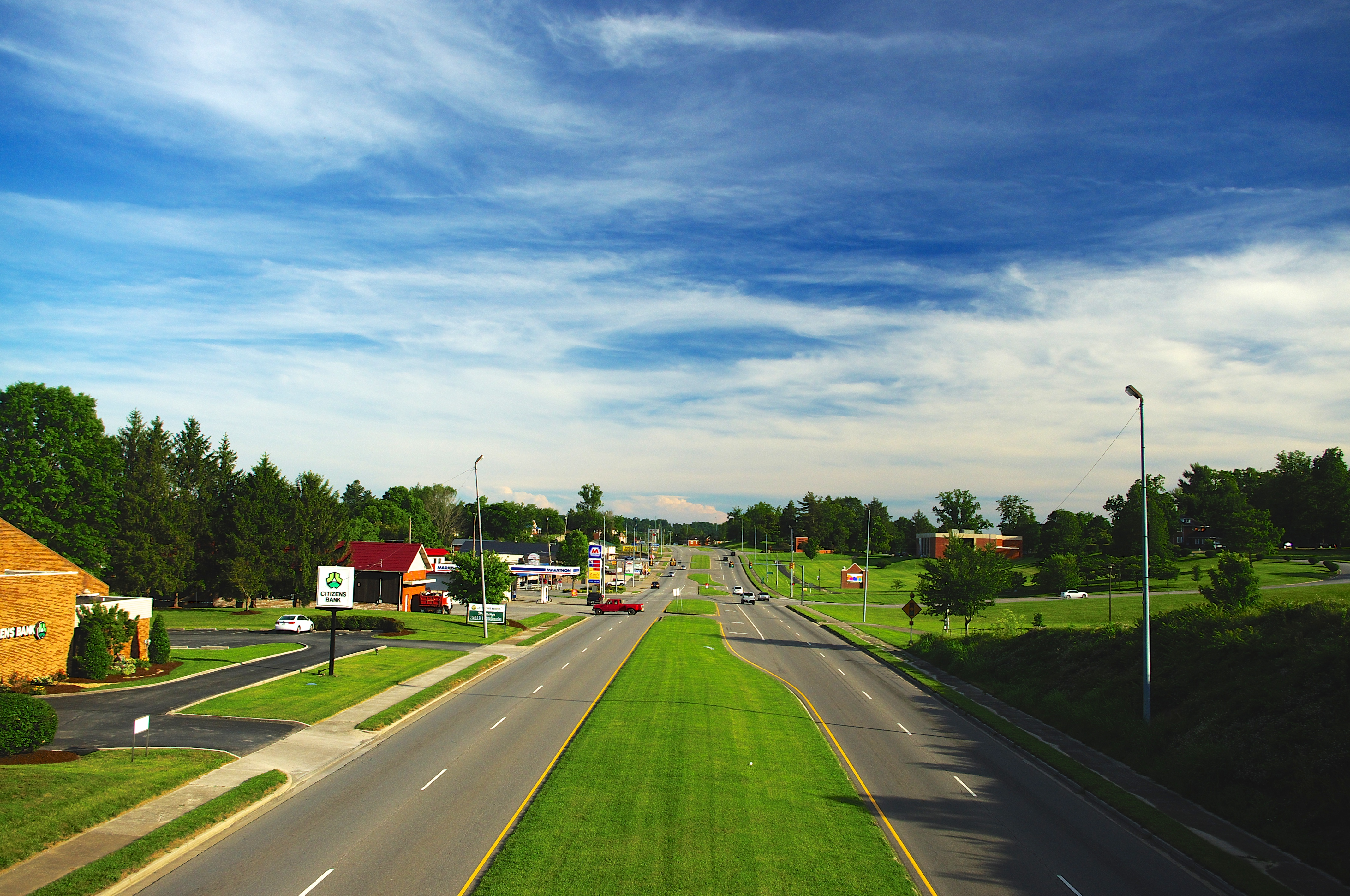 U.S. Route 25E in Harrogate, Tennessee, United States, looking south from the pedestrian bridge.